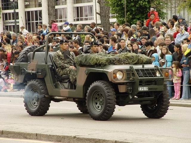 Utilitary JPX Montez, military, of the Brazilian Army in independence day parade.